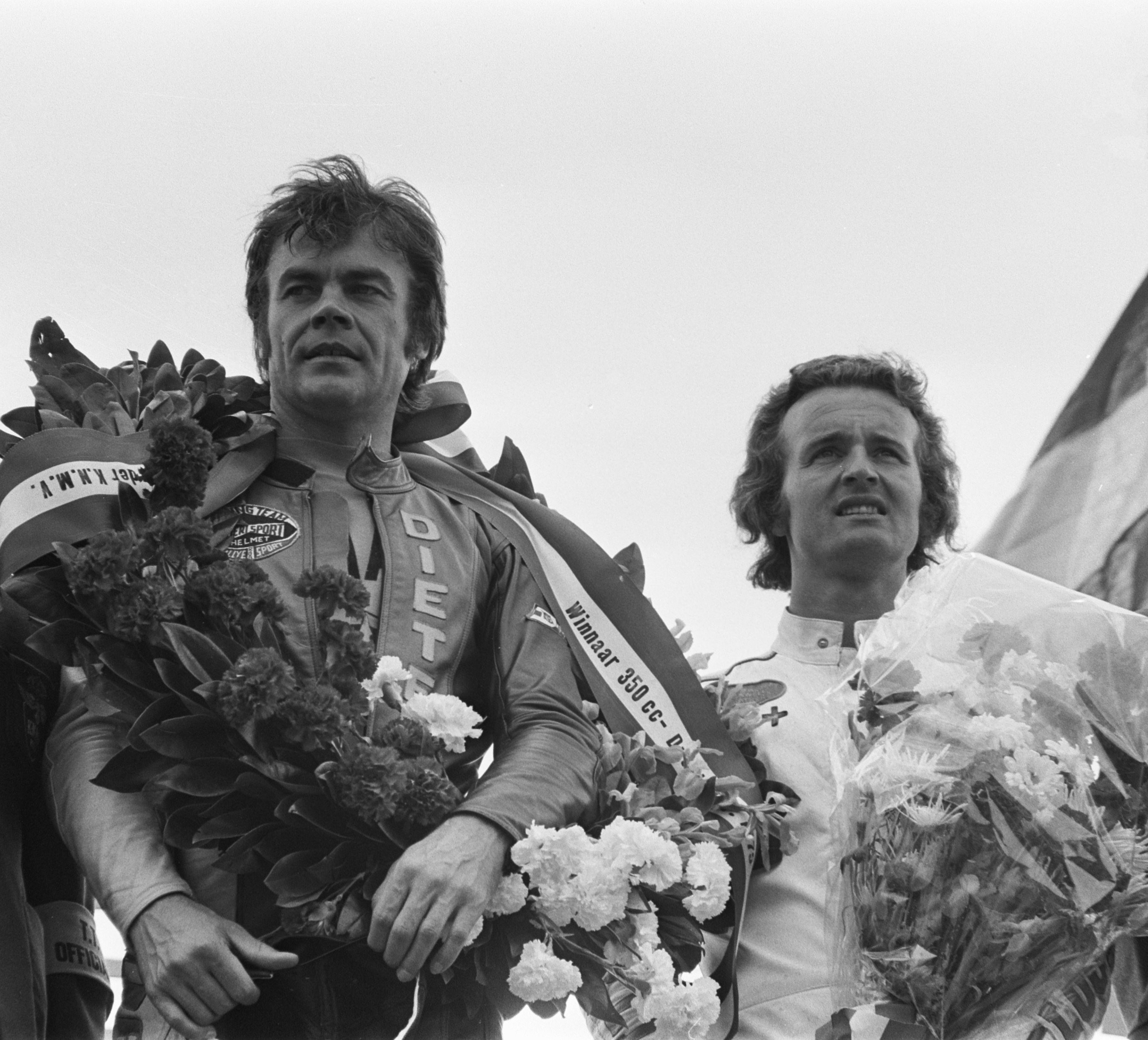 Winnaar 350 cc Dieter Braun (links) en beste Nederlander Wil Hartog (6de)